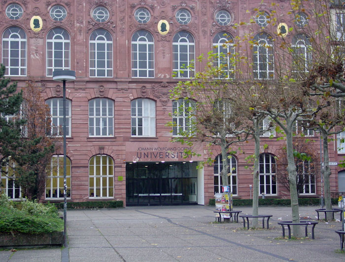 Goethe-Universität Frankfurt Main, Germany; Mertonstraße, Faculty 02 - Business/Economics